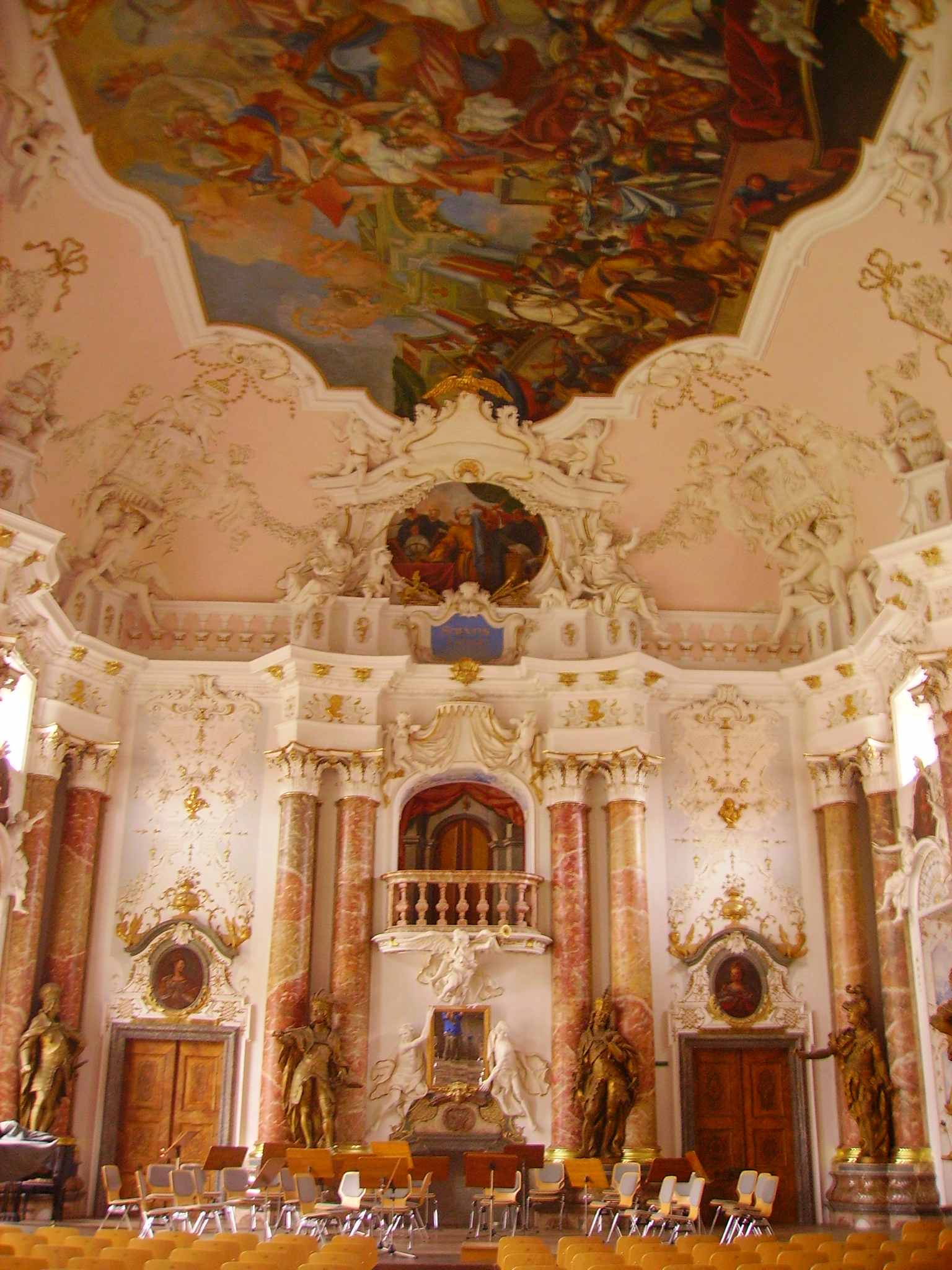 Emperor's Hall of Ottobeuren Monastery, Ottobeuren